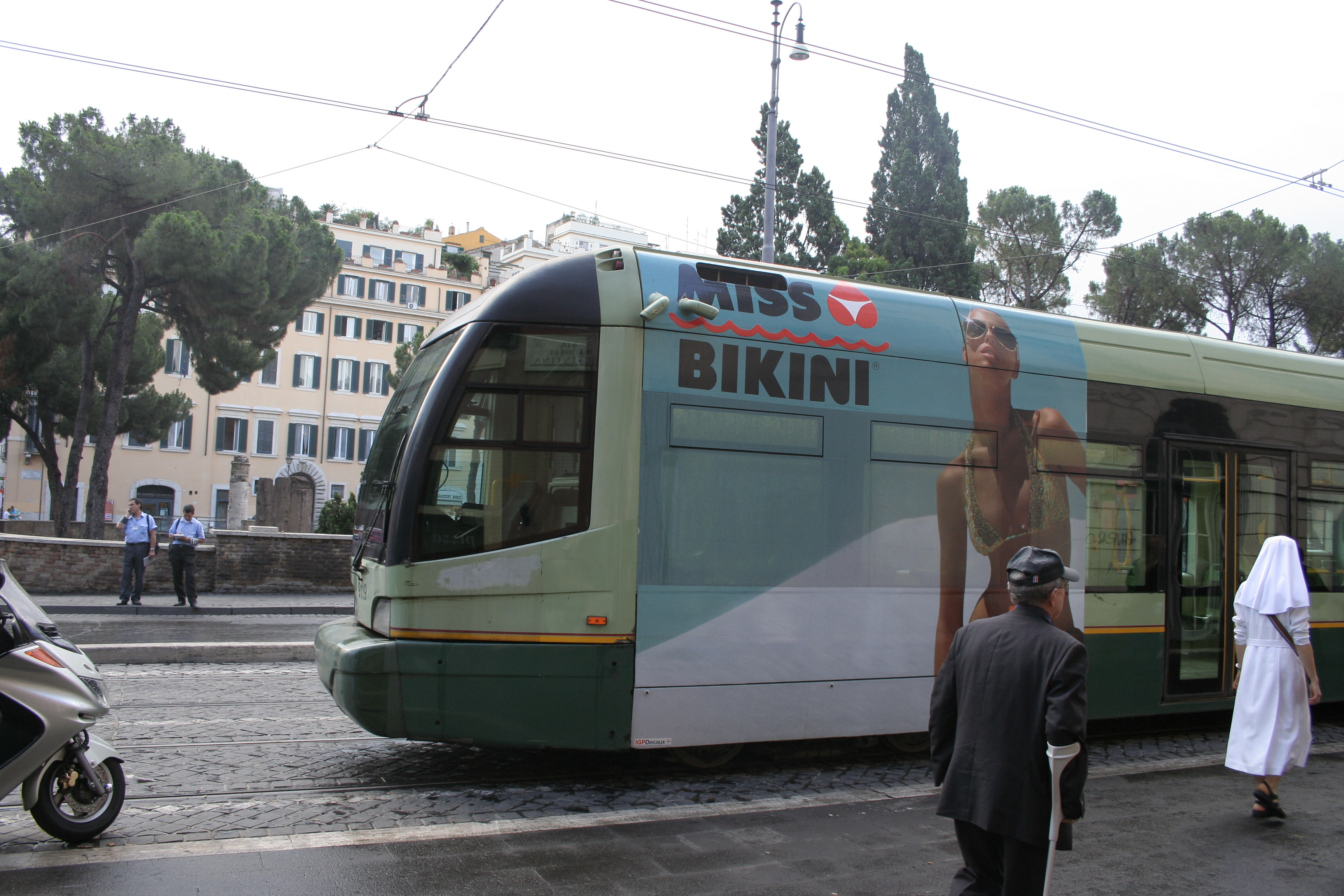 Roman Tram in Via Torre Argentina taken by me on 7-7-06 --Grahamec 10:41, 24 October 2006 (UTC)